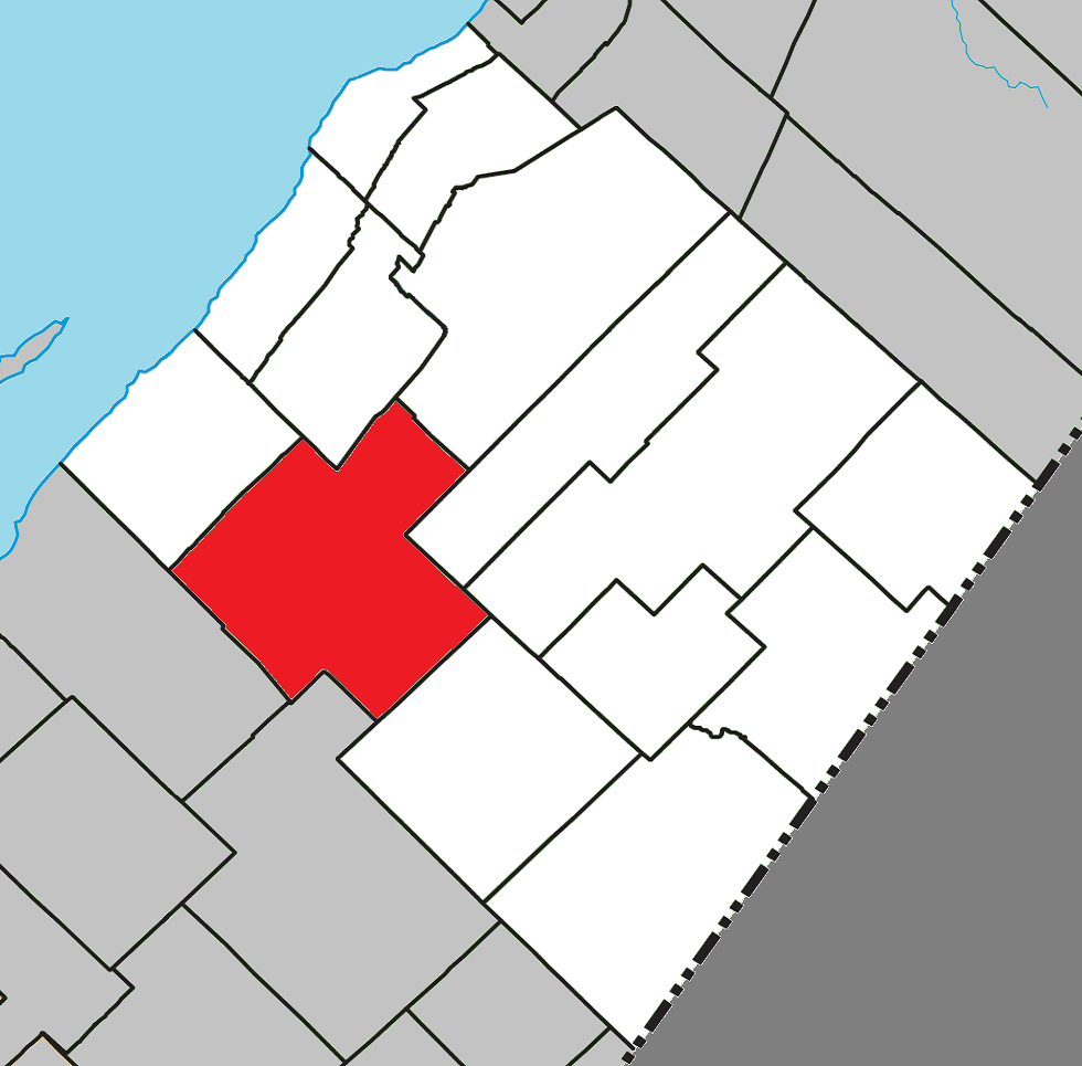 Location of Saint-Cyrille-de-Lessard, Quebec within L'Islet Regional County Municipality.